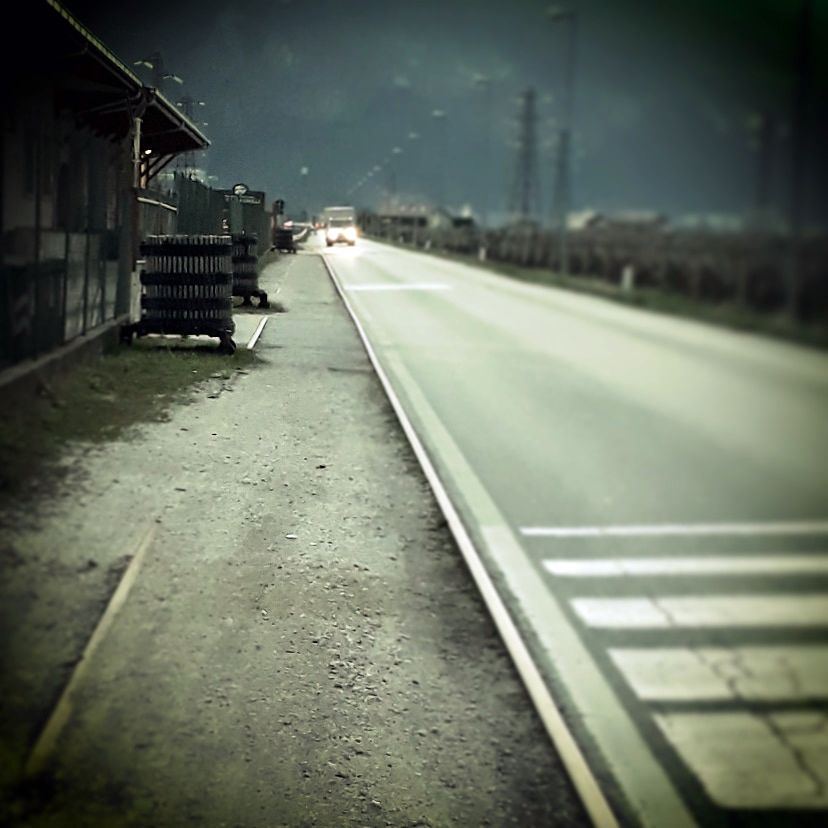 Still emerging railway section of the Mezzocorona-Mezzolombardo Railway along the current Via del Teroldego